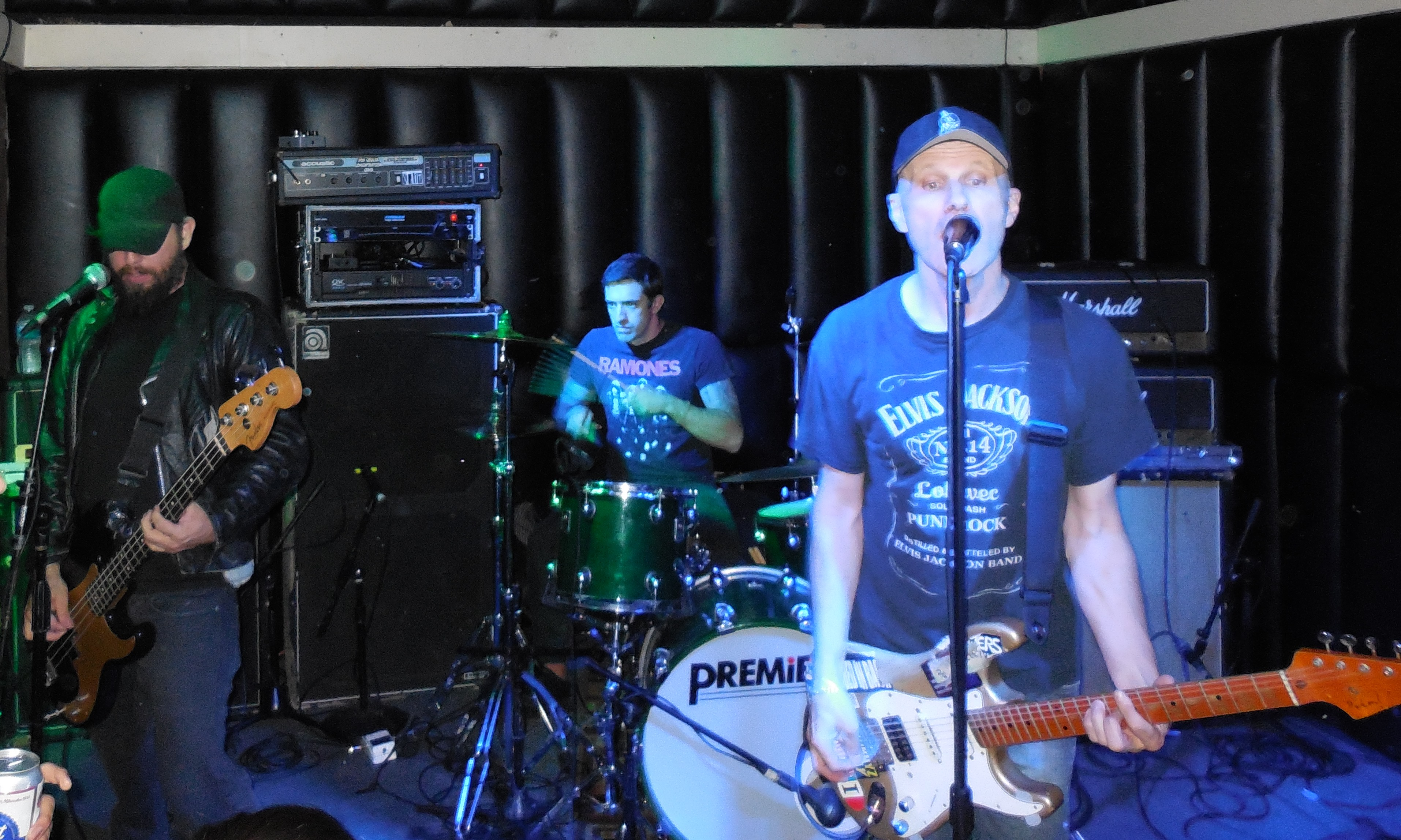 Punk rock band the Queers performing July 18, 2014 at the Soda Bar in San Diego, California.